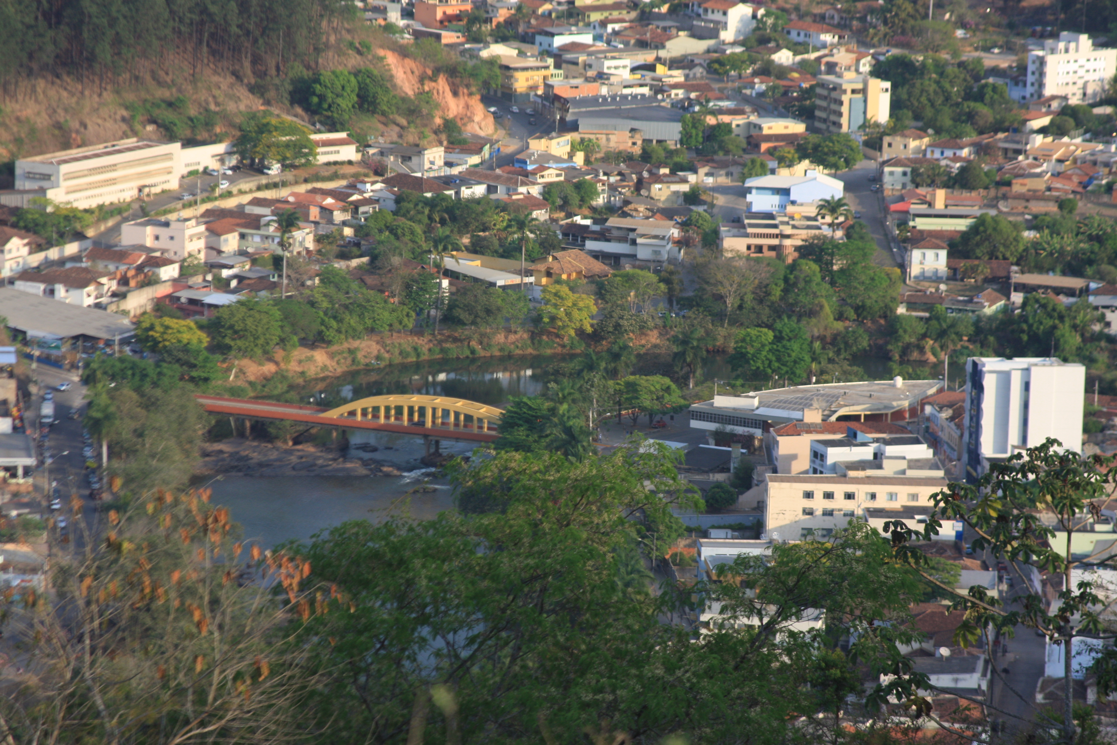 Partial view of Nova Era, Minas Gerais, Brazil, with the Benedito Valadares bridge in the center.